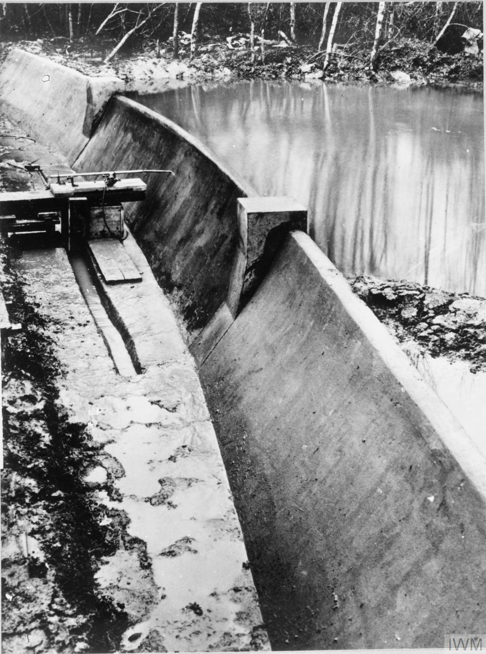 Operation Chastise (the Dambusters' Raid) 16 - 17 May 1943 Front view of a scale model of the Moehne Dam photographed in 1954. The model was constructed in 1941 at the Garston Building Research Station. Built to facilitate the testing of underwater explosive devices, it was 1/50th scale of the actual target.